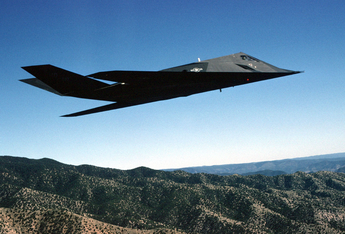 The F-117A Nighthawk Stealth fighter from the 49th Fighter Wing, 9th Fighter Squadron "Iron Knights," from Holloman Air Force Base, N.M. Flies a training mission over the New Mexico desert. The F-117 is the world's first operational aircraft designed to exploit low-observable stealth technology. The unique design of the single-seat F-117A provides exceptional combat capabilities. Air refuelable, it supports worldwide commitments and adds to the deterrent strength of the U.S. military forces. The F-117A can employ a variety of weapons and is equipped with sophisticated navigation and attack systems integrated into a state-of-the-art digital avionics suite that increases mission effectiveness and reduces pilot workload.